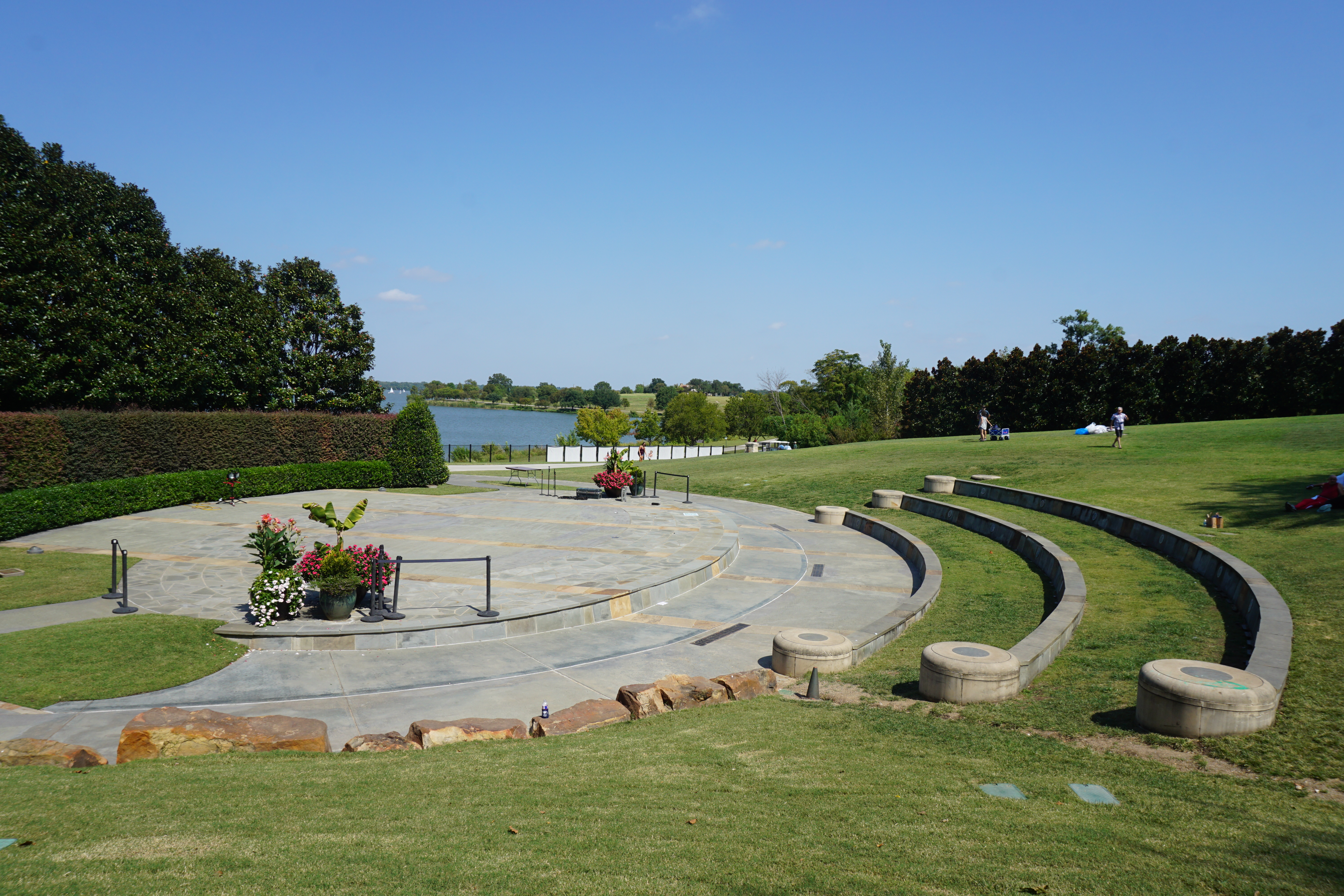 The Martin Rutchik Concert Stage & Lawn at the Dallas Arboretum and Botanical Garden in Dallas, Texas (United States).